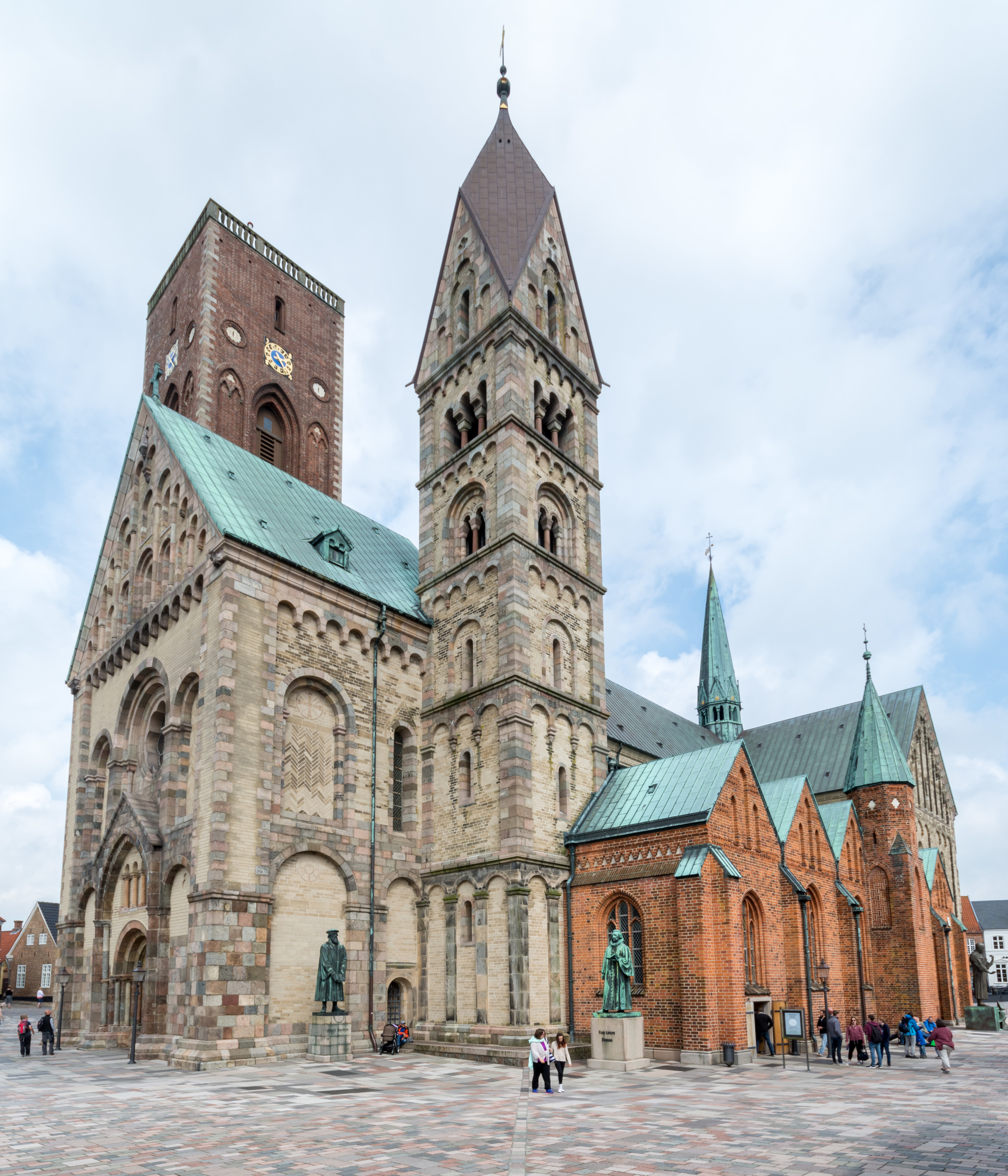 Ribe Cathedral (Esbjerg Kommune).